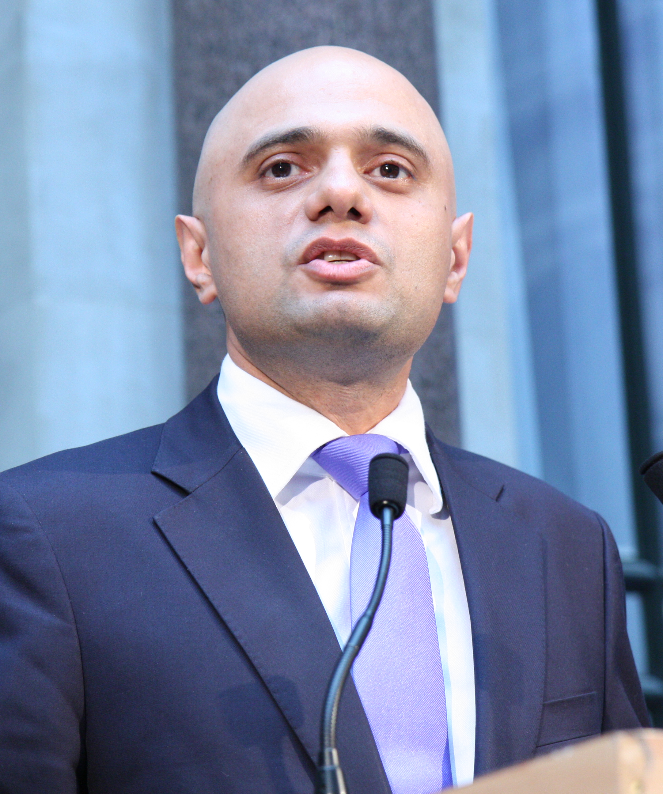 Secretary of State for Culture, Media and Sport Sajid Javid at a Creative Britain event at the Foreign Office in London, 14 May 2014.